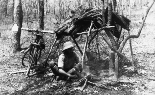 Kazimierz Nowak cooking at his free time (Africa). The photo probably taken by Kazimierz Nowak (1897-1937, the author is on the photo; taken probably by a self-timer) during his trip through Africa - a Polish traveller, correspondent and photographer. Probably the first man in the world who crossed Africa alone from the North to the South and from the South to the North (from 1931 to 1936; on foot, by bicycle and canoe).